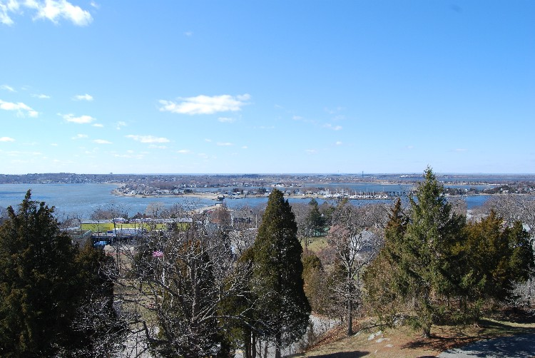 View from Fort Barton Historic Site, Tiverton, Rhode Island